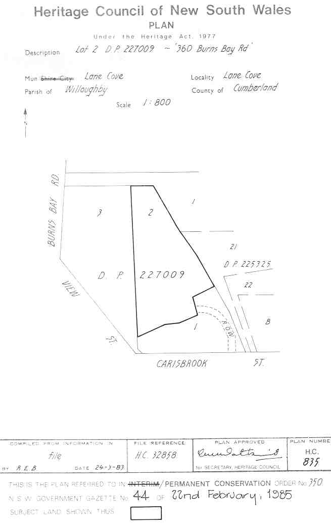 Linley House: PCO Plan Number 350